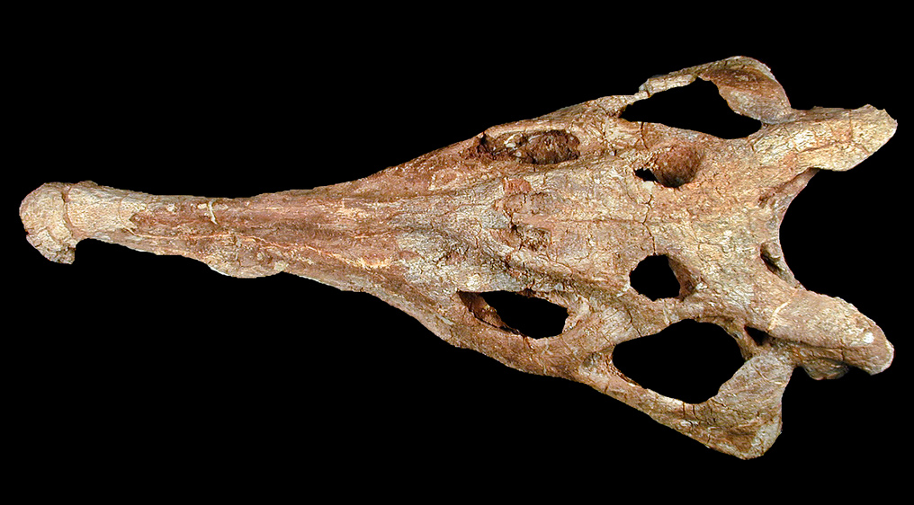 Pseudopalatus mccauleyi is a Late Triassic phytosaur found at Petrified Forest National Park. NPS Photo, public domain